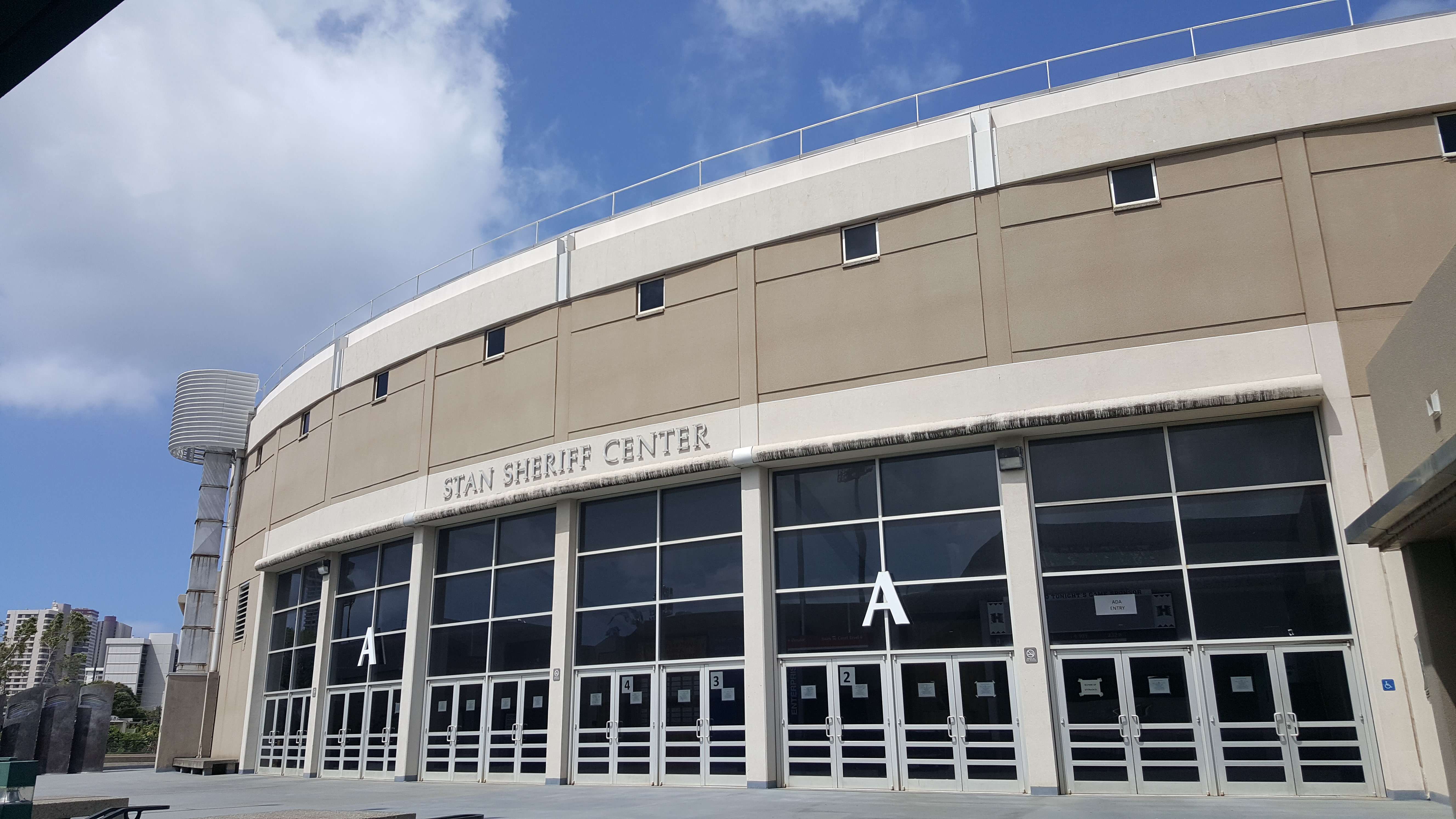 This is a photo of the exterior of the Stan Sheriff Center. It was taken from the west side of the arena, near the box office.